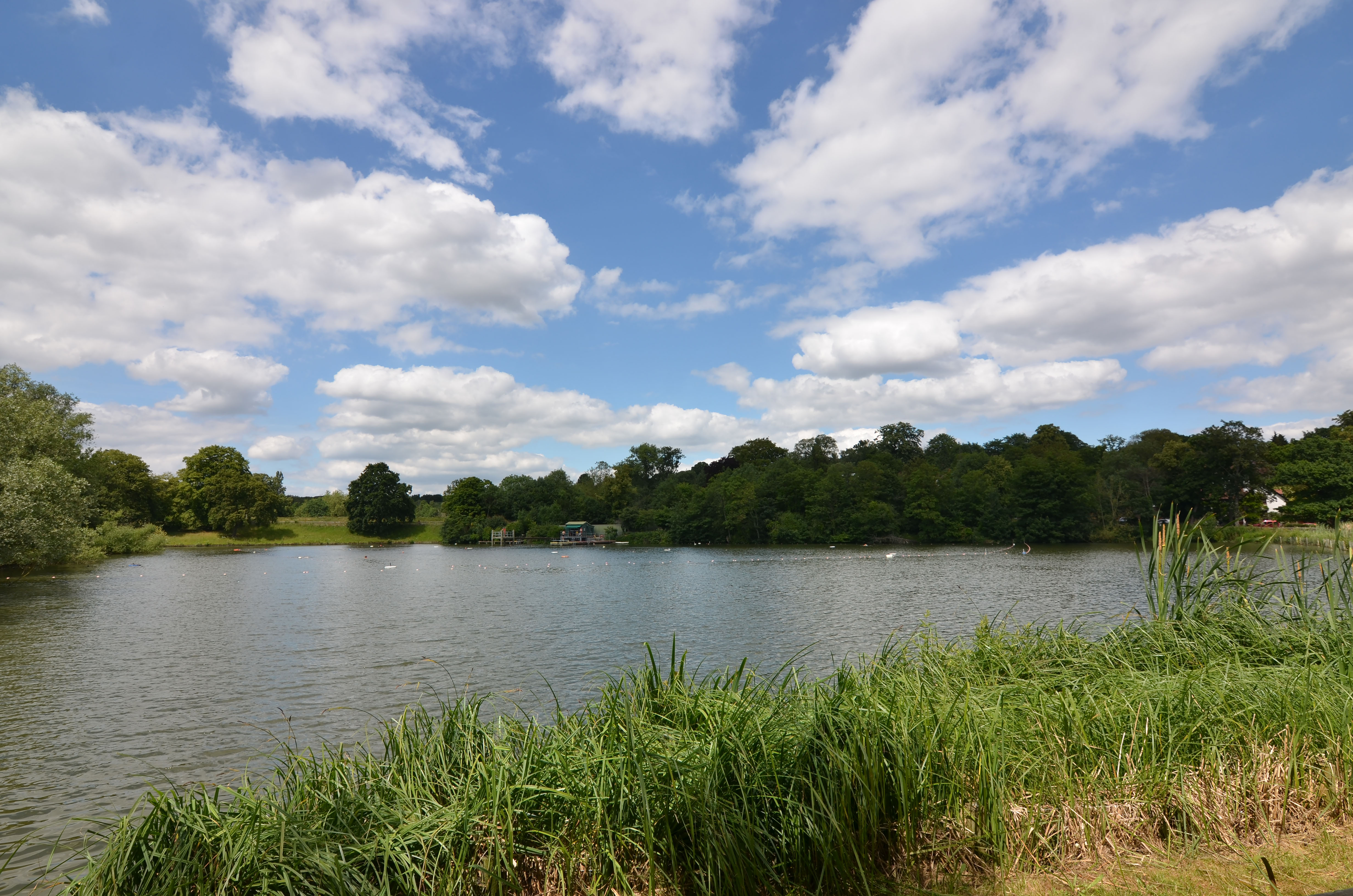 Hampstead Heath bathing pond. Highgate pond #2, Men's swimming pond. Photographed from South to North.